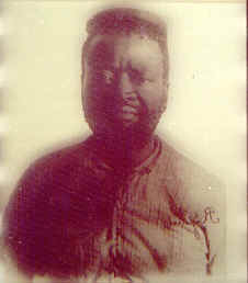 Gungunhana, last emperor of Gaza, Mozambique, shortly after being made captive in Chaimite by the Portuguese, wearing his wax crown.